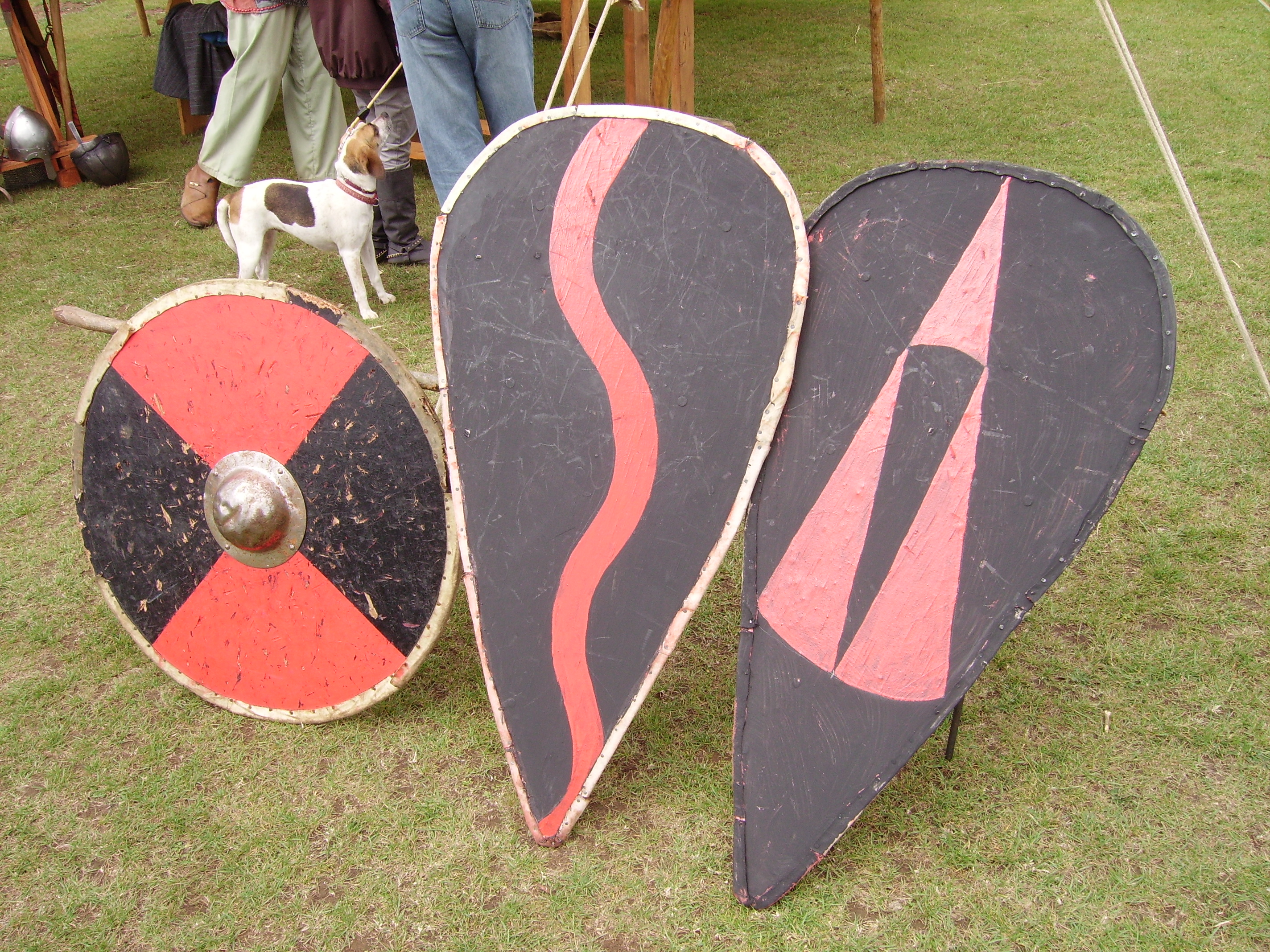 Reproduction shields on display by Dark Age historical re-enactment group "Wryngwyrm" at the Living History event at Priory Country Park.